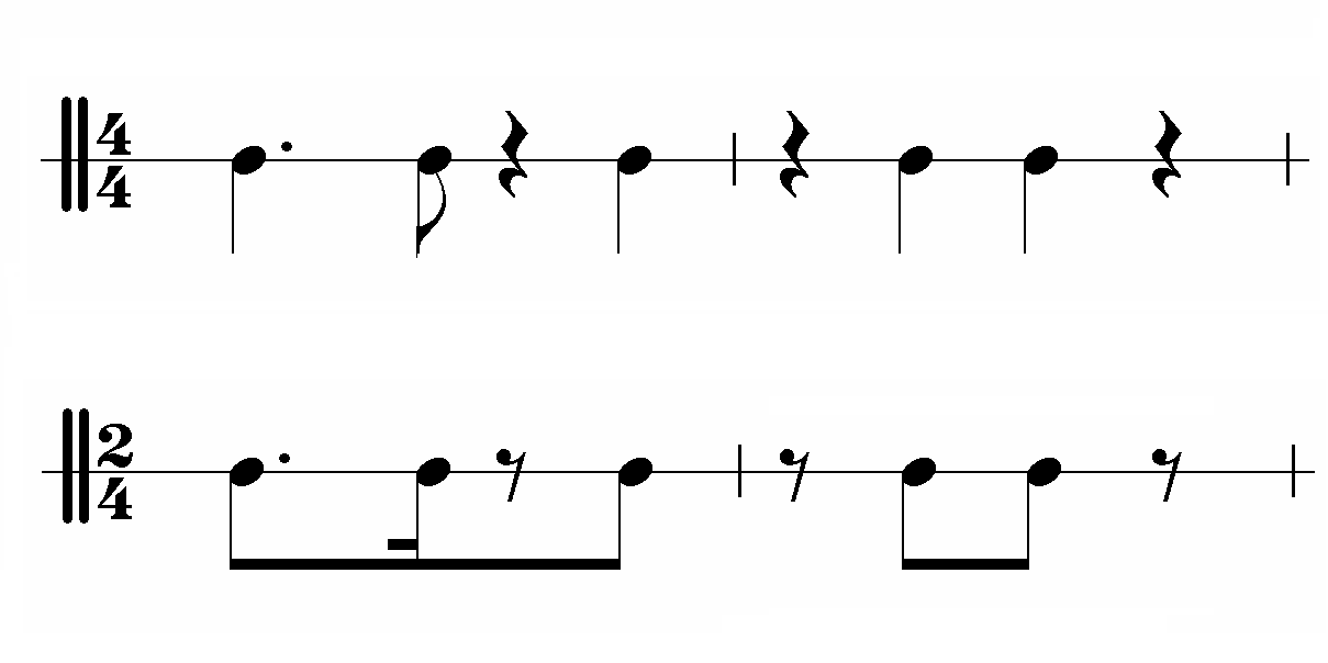 The "clave de son" rhythmic pattern, frequently used in Latin music, in its so-called 3-2 direction. The rhythm is shown here in "modern" 4/4-time notation (popular in Europe and the United States) as well as in its "traditional" 2/4 form (still favored by many Latin American musicians). Based on "File:2-3 Son Clave.png" file, done by User:Bottomline using Music Publisher 5.